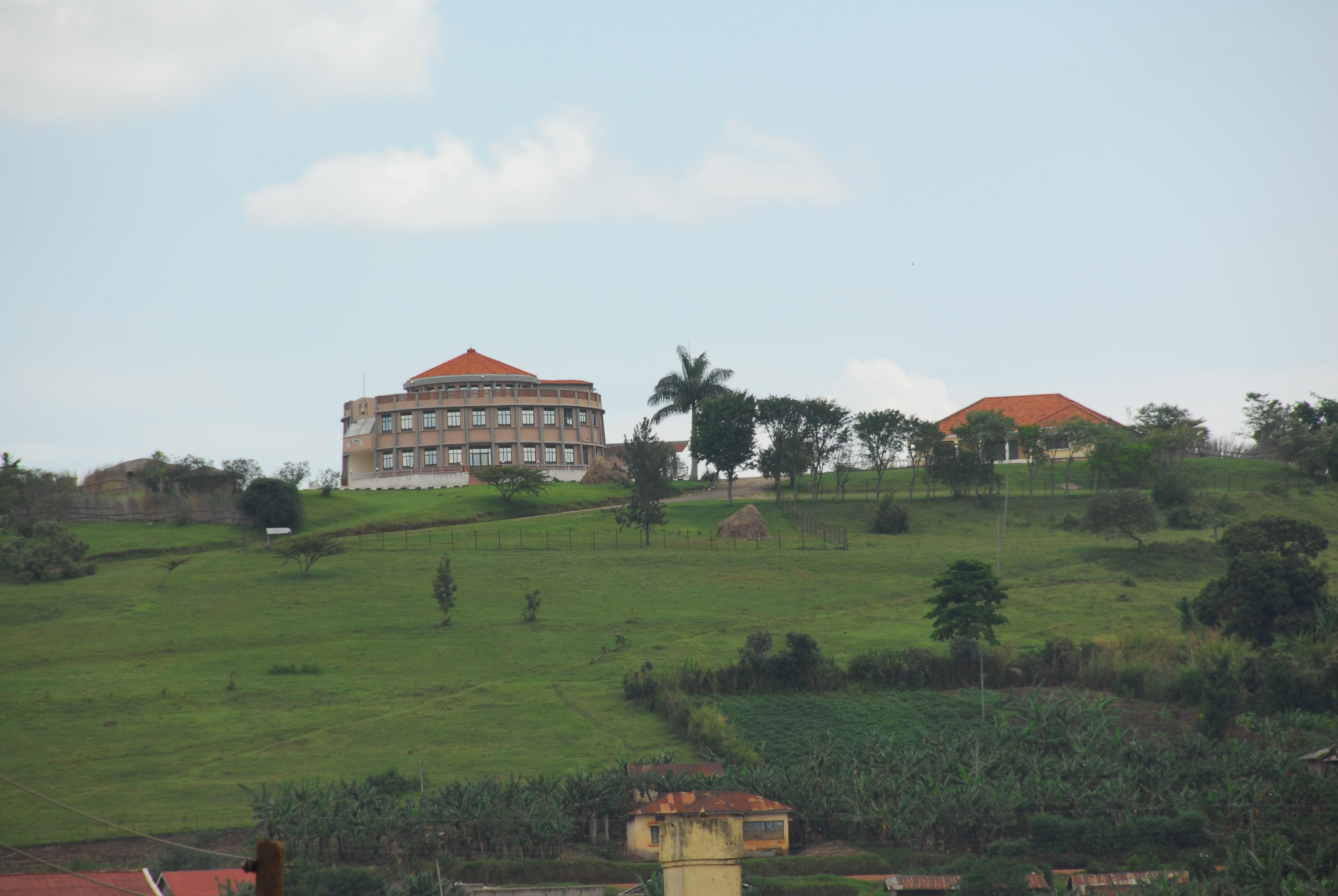 Tooro Palace in Fort Portal